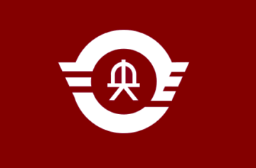 Flag of Shoo Okayama